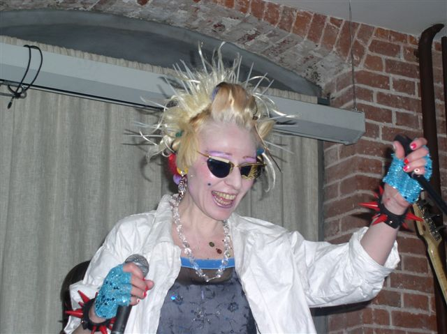 Zhanna Aguzarova